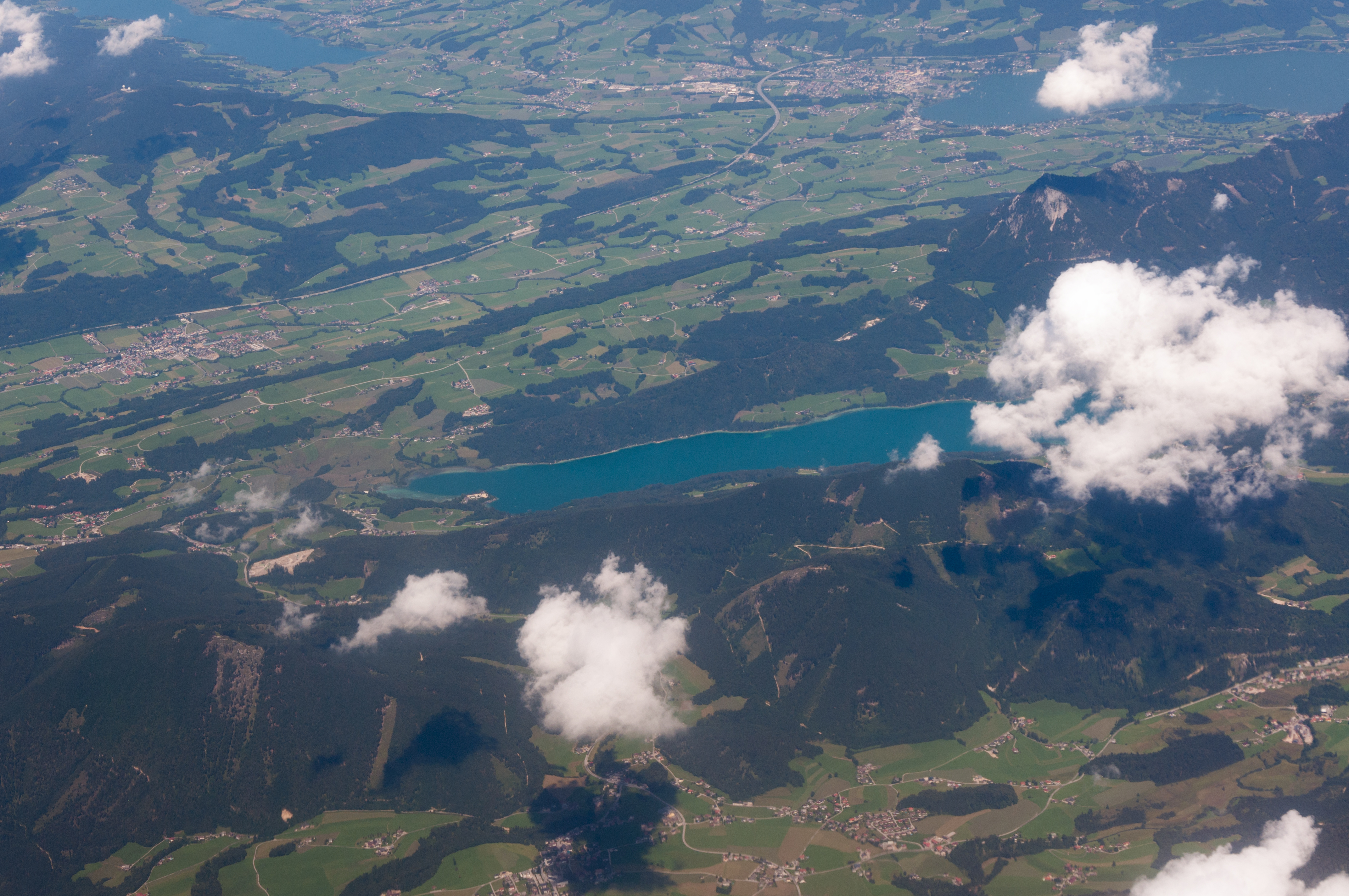 Austria, aerial impressions between Belgrade and Munich